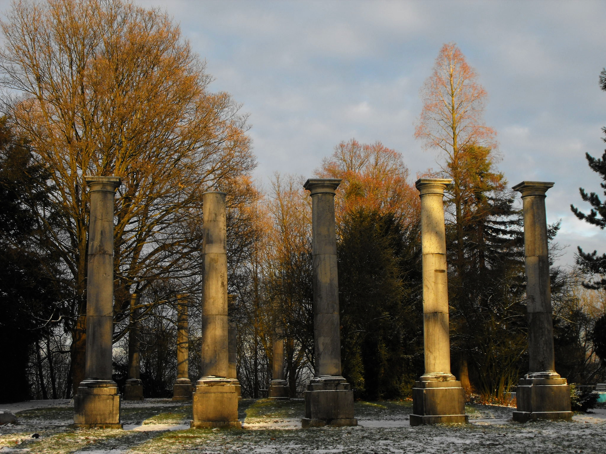 Lousberg: columns at former "Belvedere"